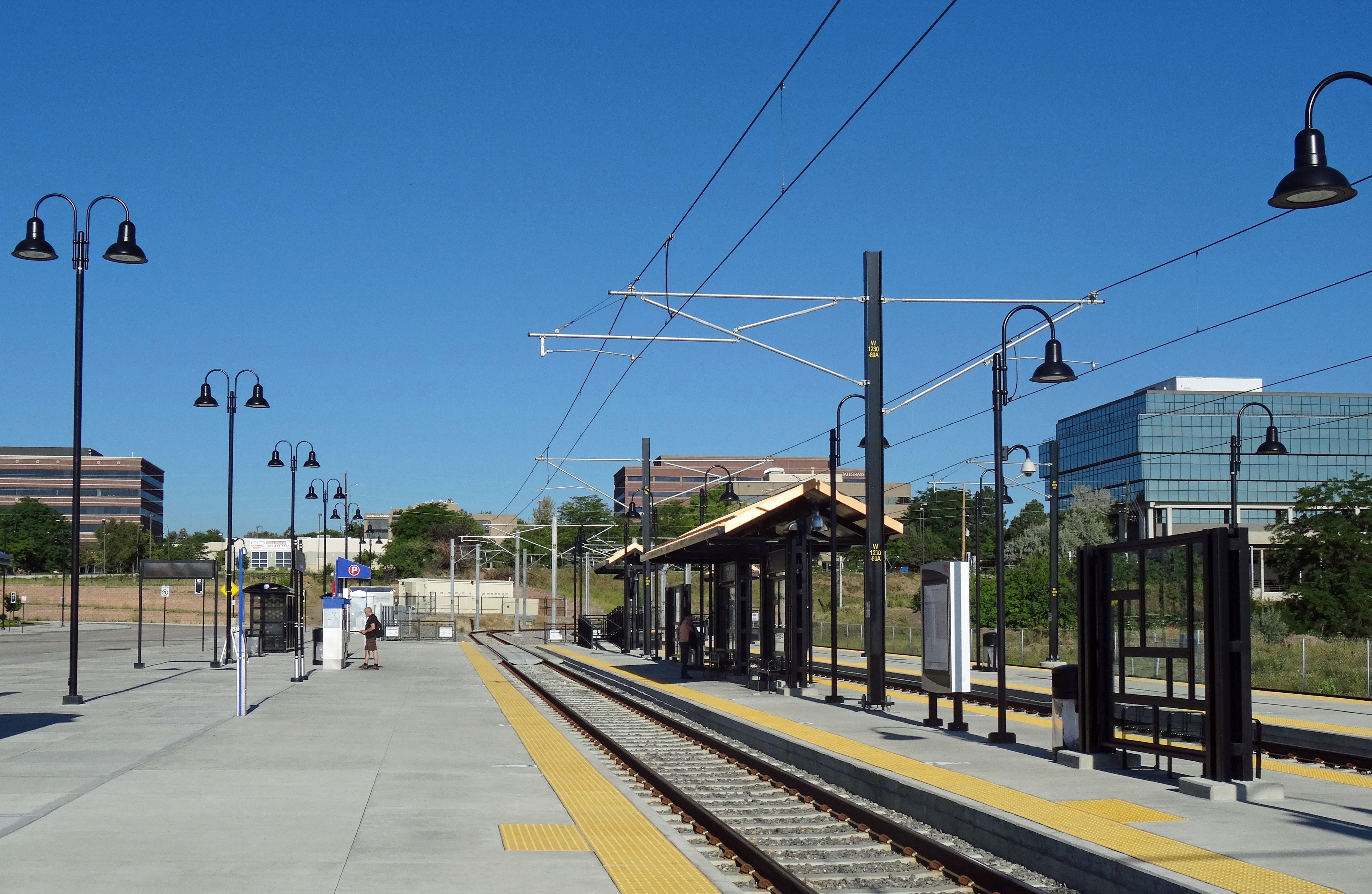 The Federal Center RTD light rail station, located at 11601 West 2nd Place in Lakewood, Colorado.